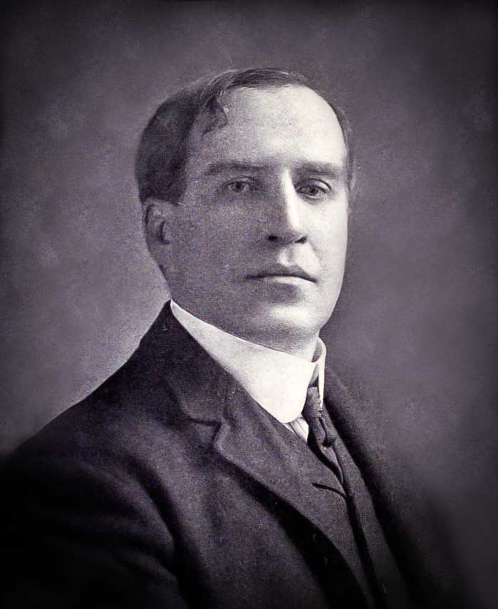 A photograph of author Owen Kildare.